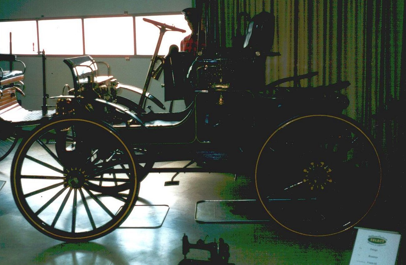 Duryea 1895